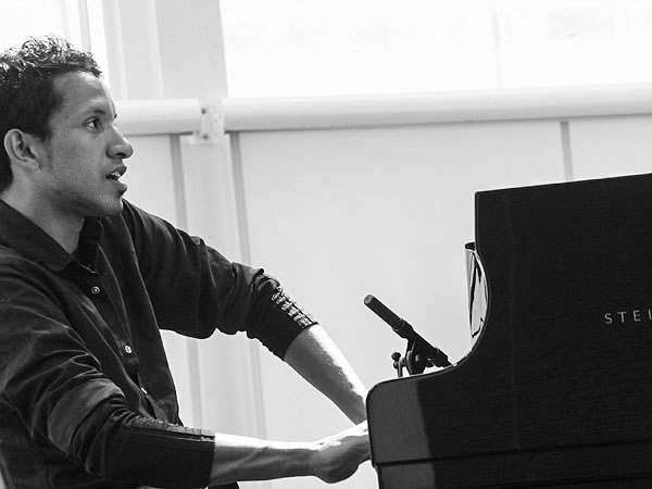 Kyle Shepherd at Aarhus Jazz Festival 2010